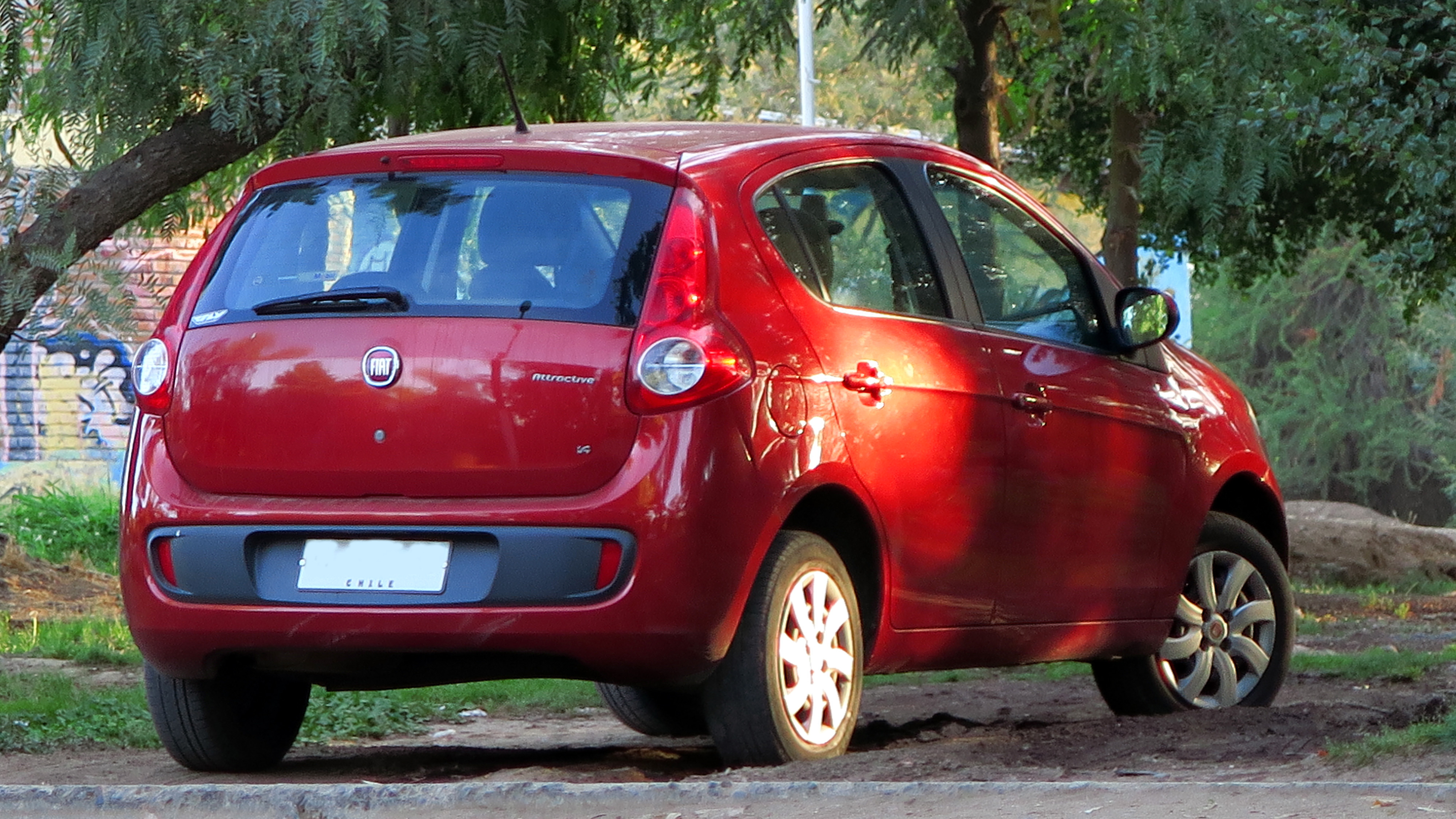 Fiat Palio 1.4 Attractive 2015